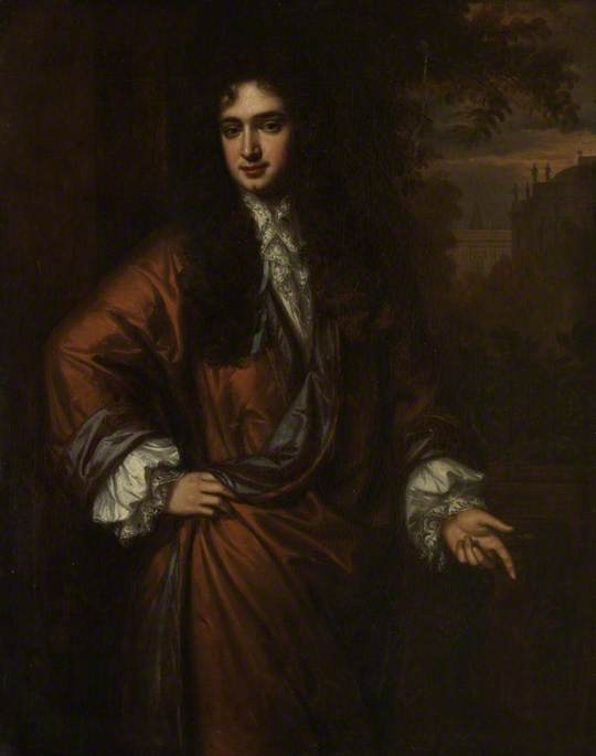 Portrait of John Wilmot (1647–1680), 2nd Earl of Rochester, by the Anglo-Dutch artist Sir Peter Lely. Courtesy of the collections of Dillington House.